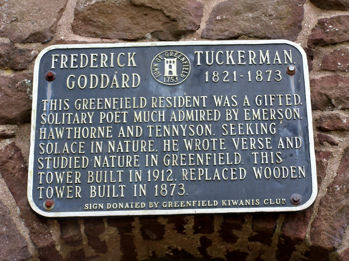 Photograph of plaque at Poet's Seat Tower in Greenfield, Massachusetts, commemorating the Greenfield poet Frederick Goddard Tuckerman